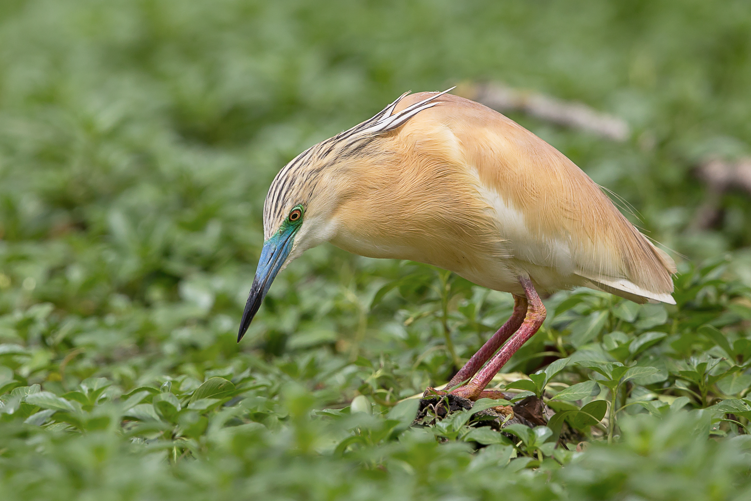 Squacco Heron. Adult in perfect breeding plumage